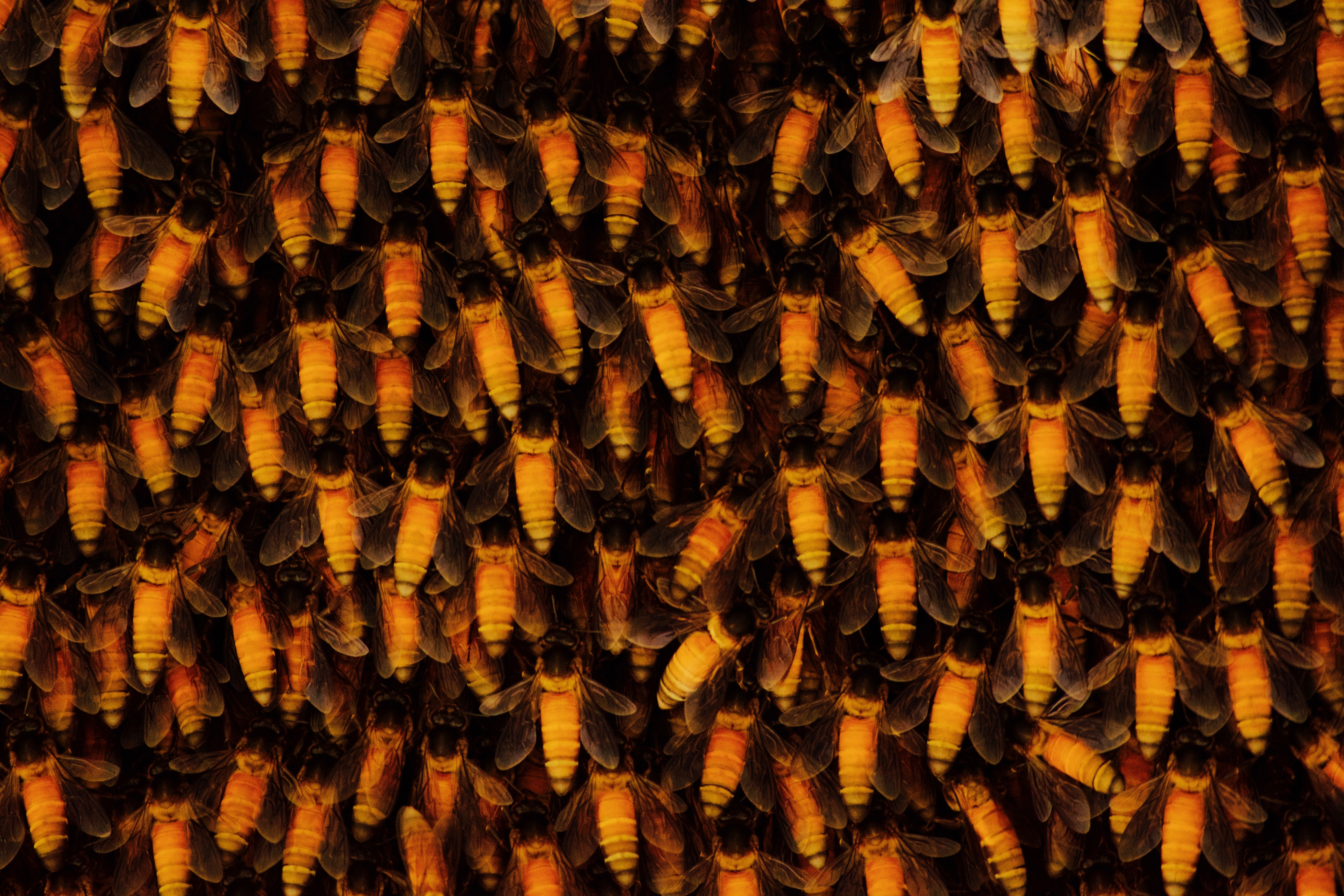 A close up shot of an apis dorsata hive.